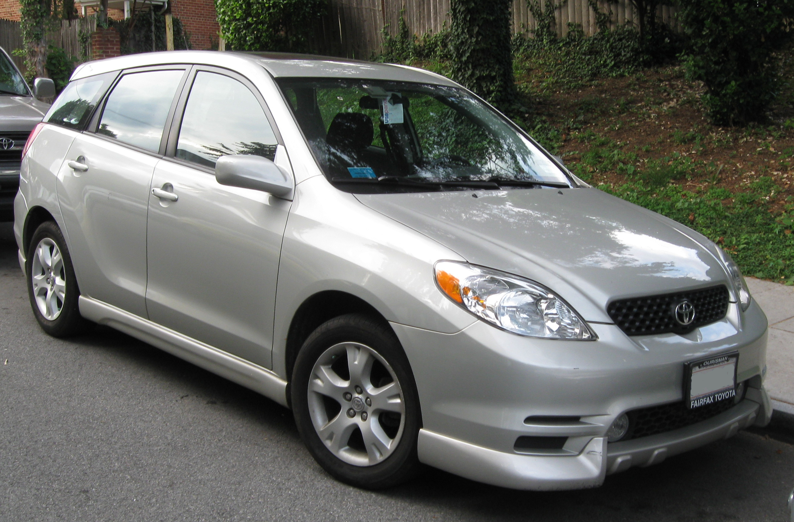 2003-2004 Toyota Matrix XR photographed in Washington, D.C., USA.